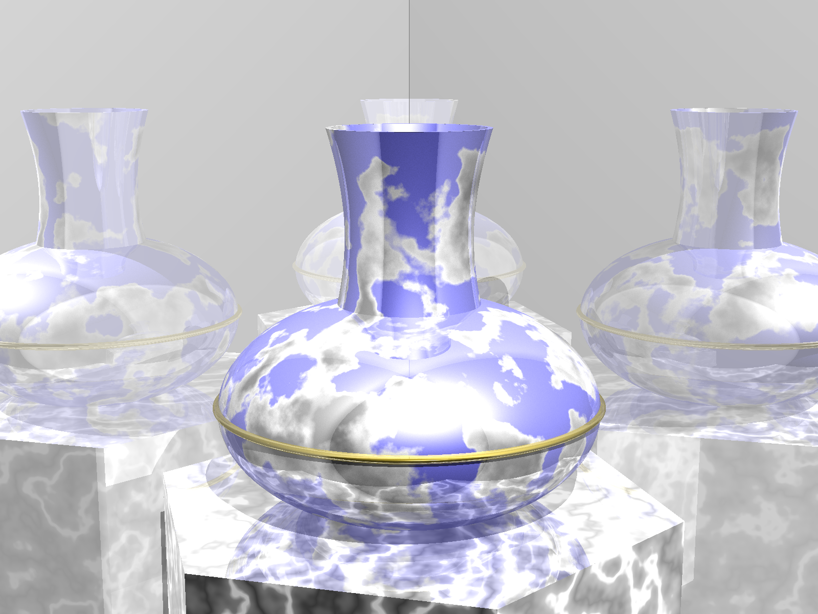 A vase on a pedestal rendered with DKBTrace 2.12 (DOS version from [1]), the precursor to POV-Ray. The image scene file skyvase.dat is Public Domain and from the included demo archive DKB212DT[2].